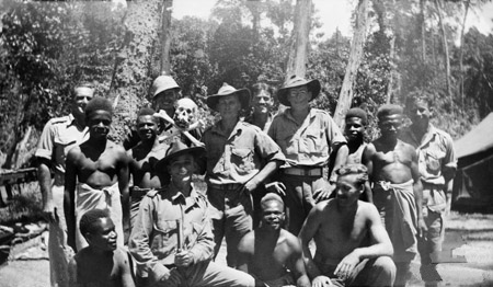 AWM Caption: WEWAK SECTOR, NEW GUINEA, 1945-08-15. MEMBERS OF THE 'M' SPECIAL UNIT, ALLIED INTELLIGENCE BUREAU.